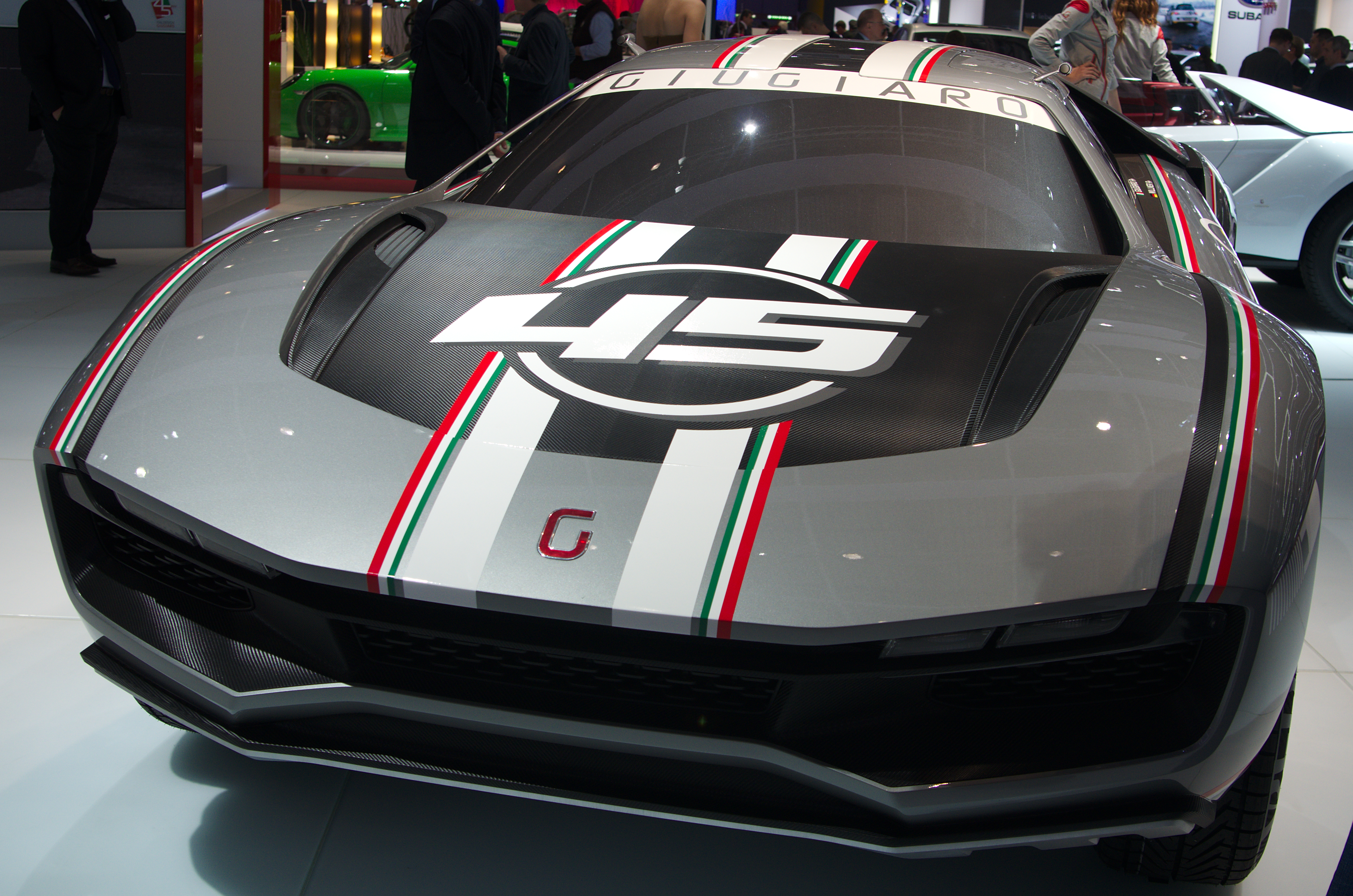 Geneva MotorShow 2013 - Italdesign Giugiaro Parcour XGT-Coupe grey front